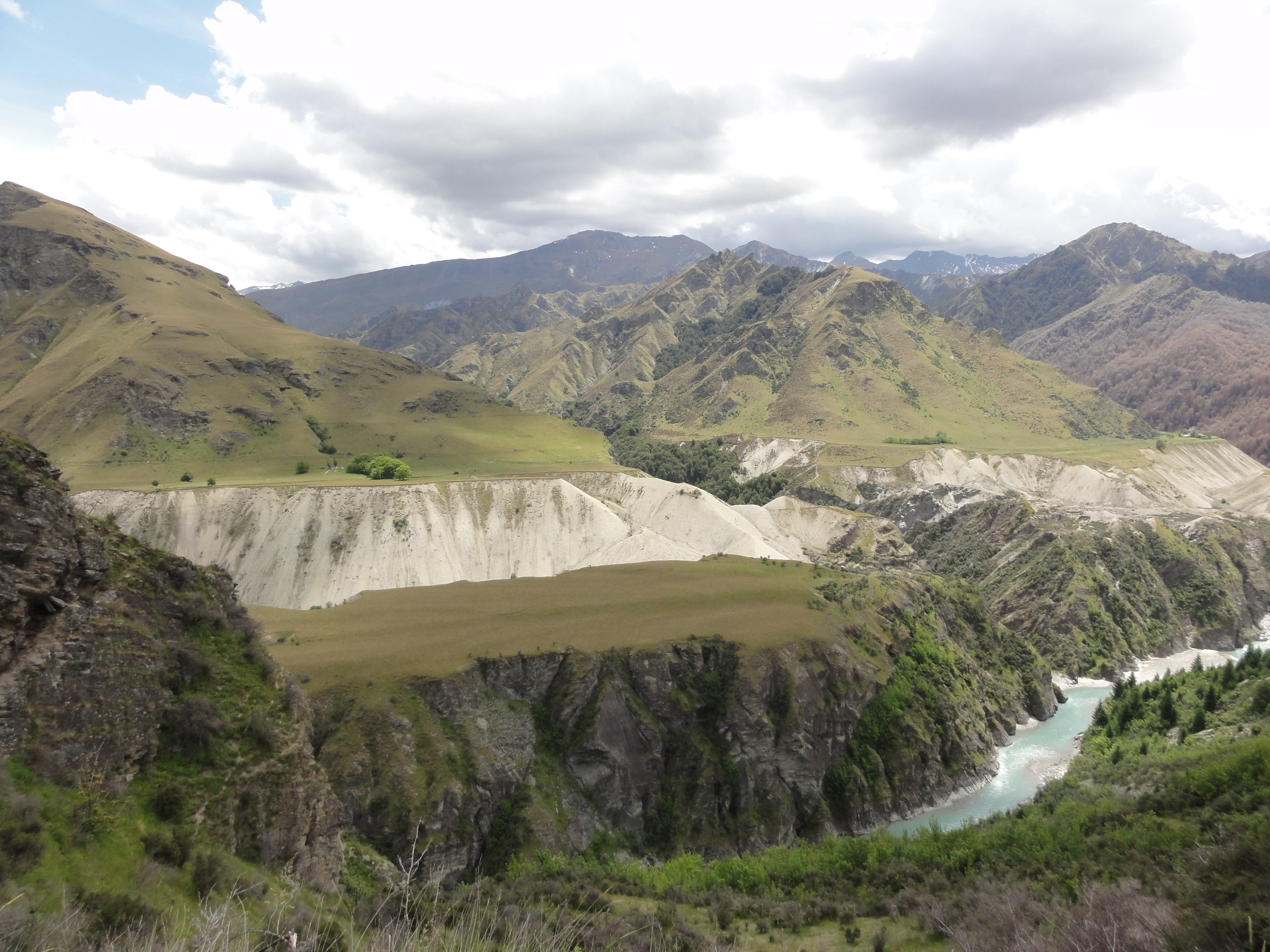 dams and tailings from gold mining "sluicing" Shippers Canyon near Queenstown, New Zealand The River below ist Shootover river